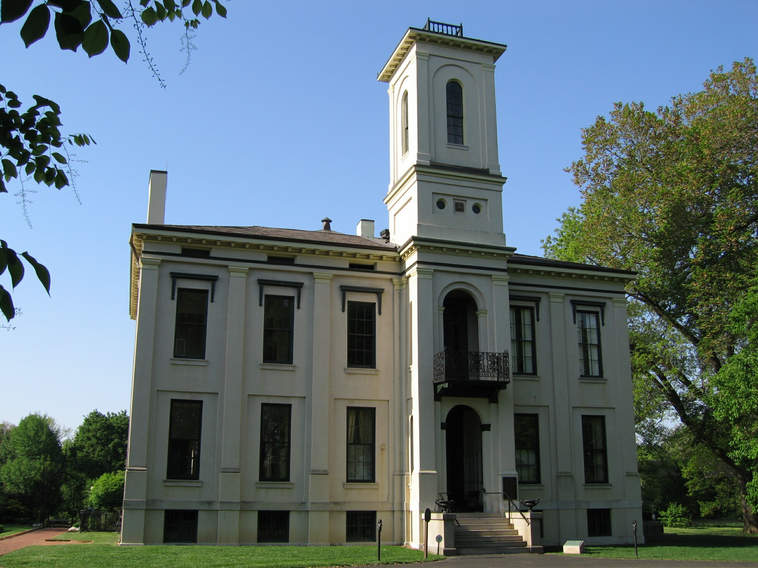 Henry Shaw's Tower Grove house, built in 1849 at Saint Louis.